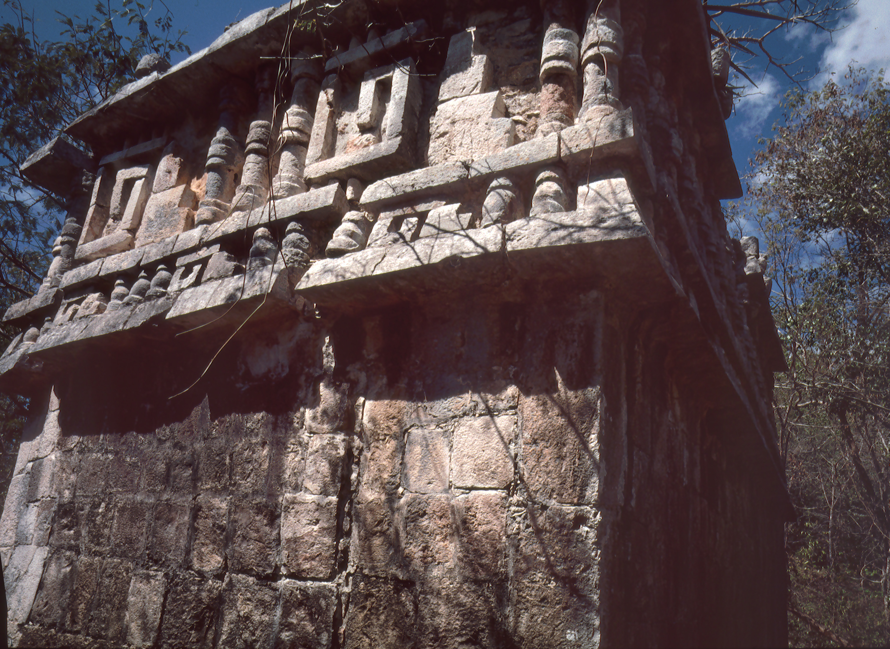 Labna, Yucatan, Mexico: Twins building.